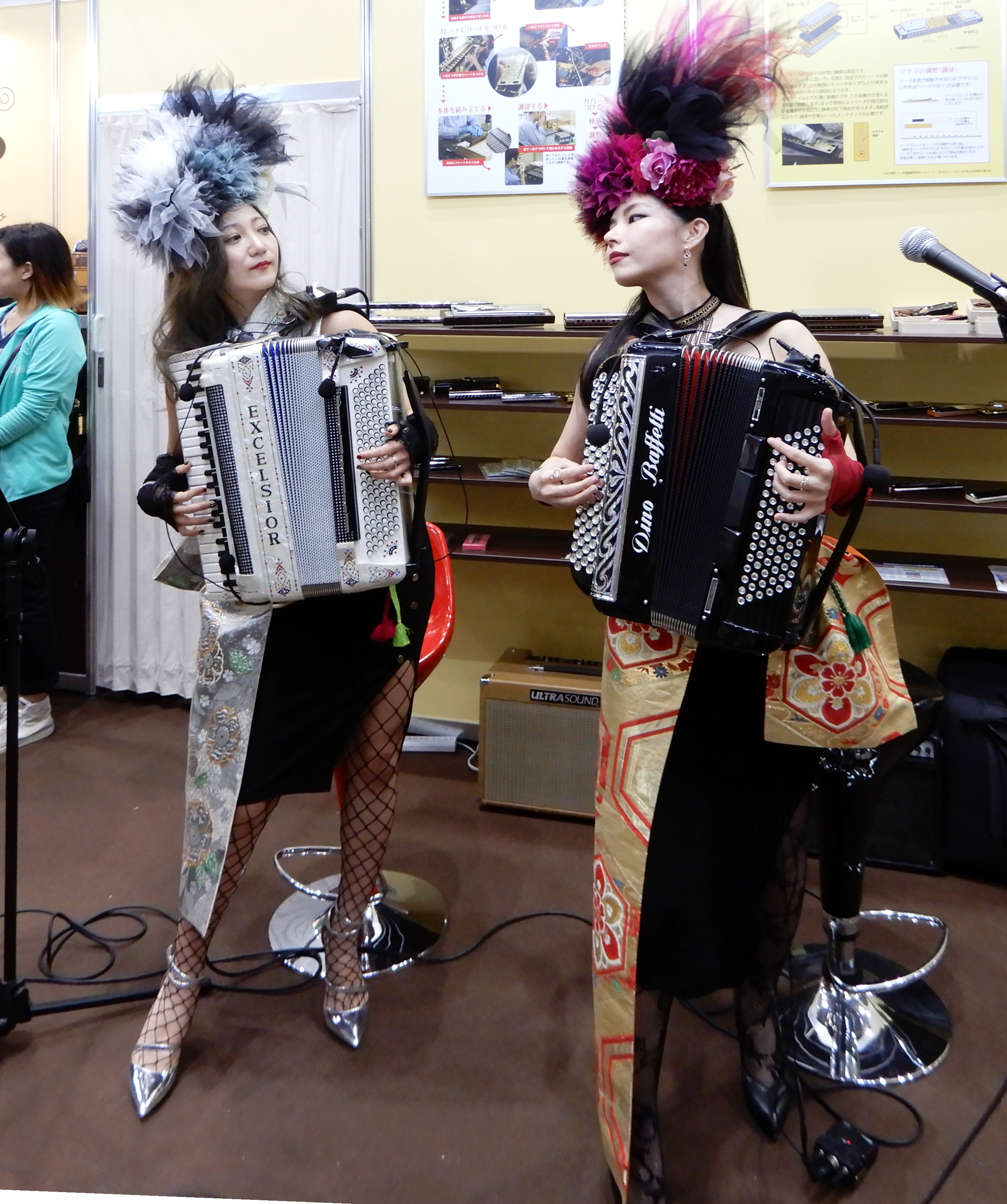 Taken at Musical Instruments Fair Japan 2018. 中文（中国大陆）: 拍照地点 2018年日本东京国际乐器展